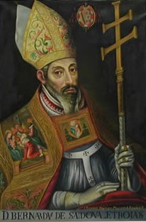 Bernardo de Sandoval y Rojas, (1546-1618) spanish cardinal bishop.